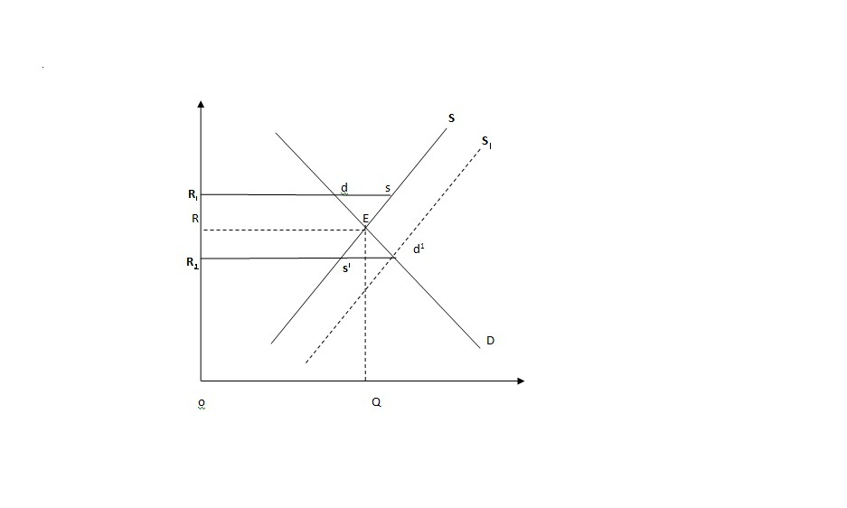 Savings and investment